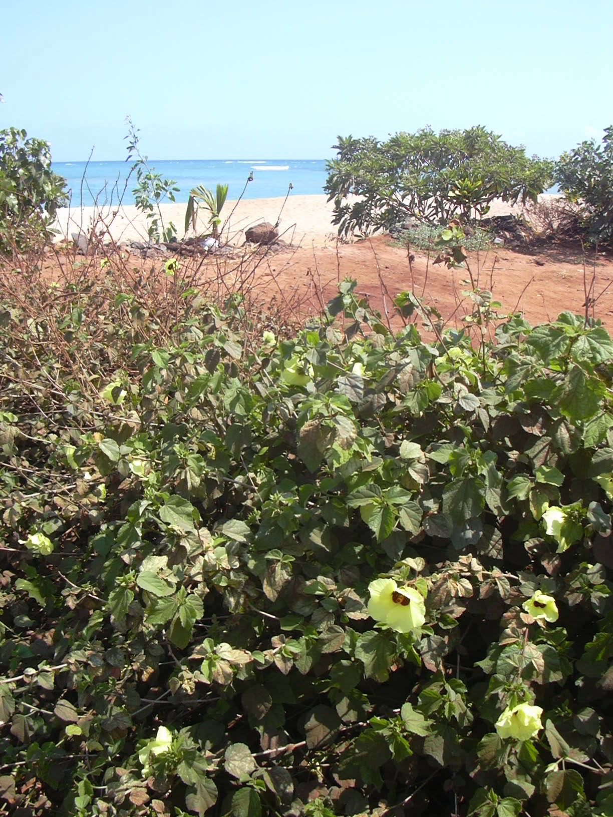 Hibiscus ovalifolius (habit). Location: Maui, Kanaha Beach